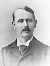 Portrait of Senator John Beard Allen of Washington